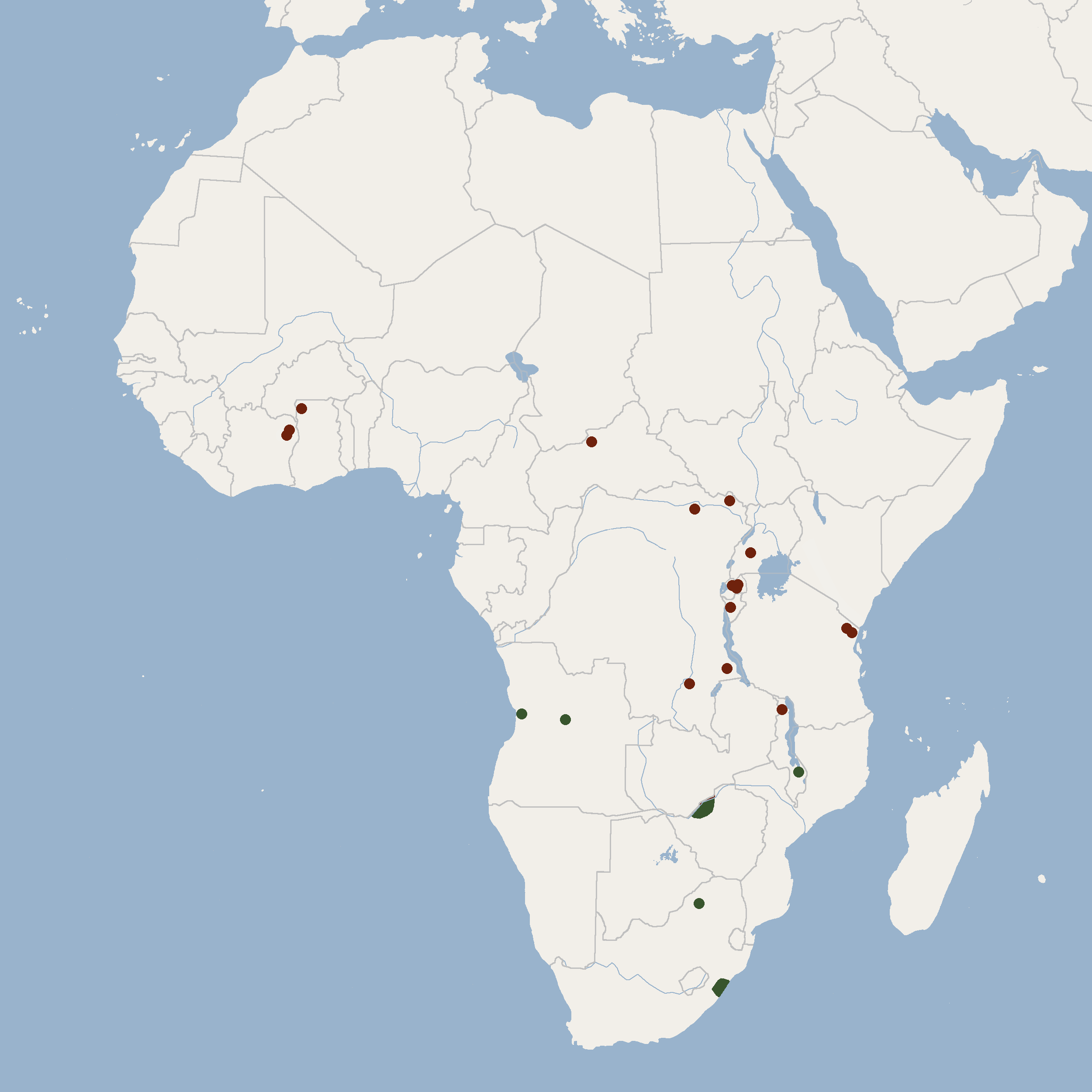 according to Happold & Happold, 2013. Subspecies range: O.m.martiensseni in brown, O.m.icarus in green